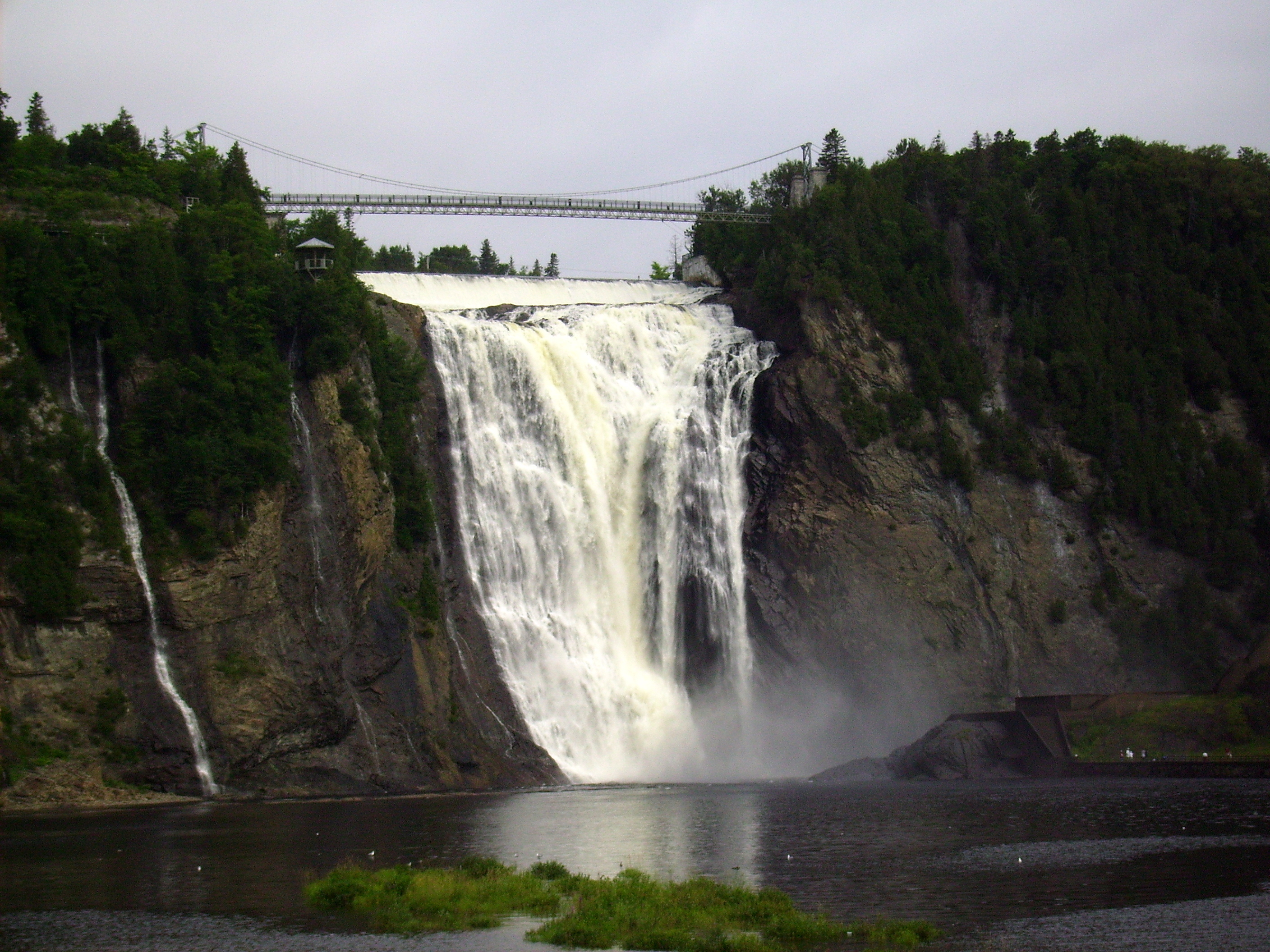 Montmorency Falls , at total height of 84 meters (276 ft) are the highest in the province of Quebec, and 30 meters (98 ft) higher than Niagara Falls.